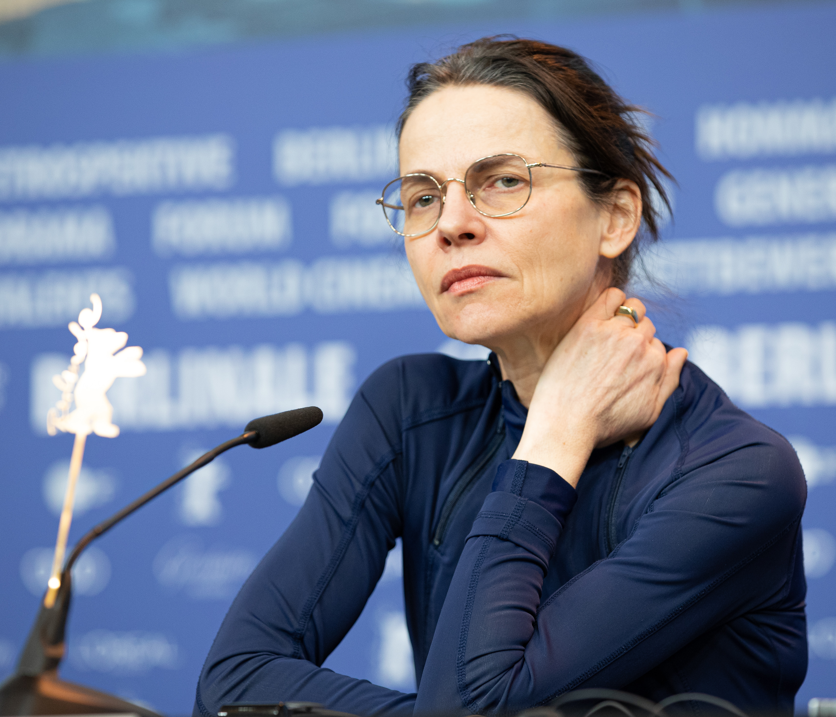 Angela Schanelec presenting the Movie "I Was at Home" at the Berlinale 2019